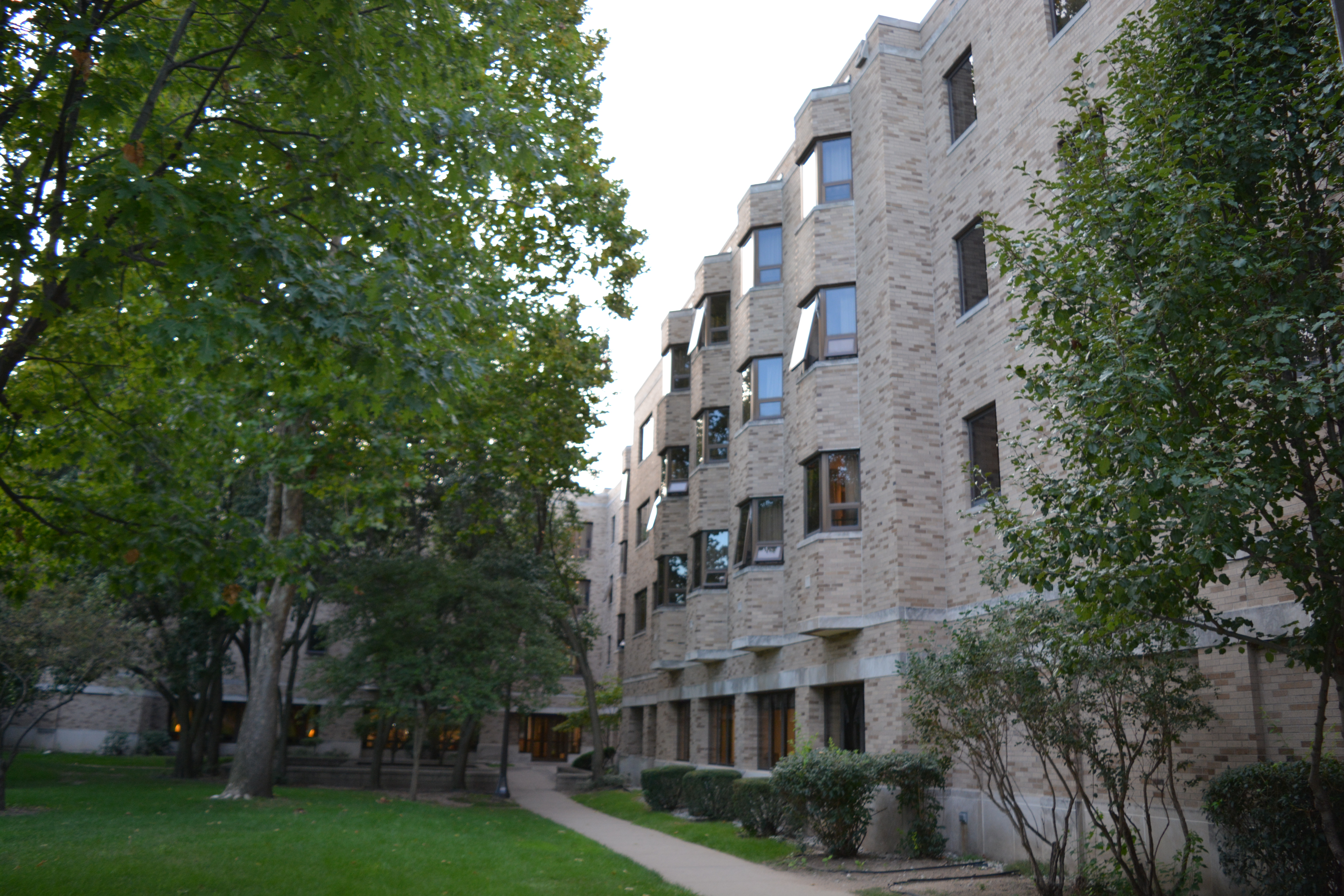 University of Notre Dame